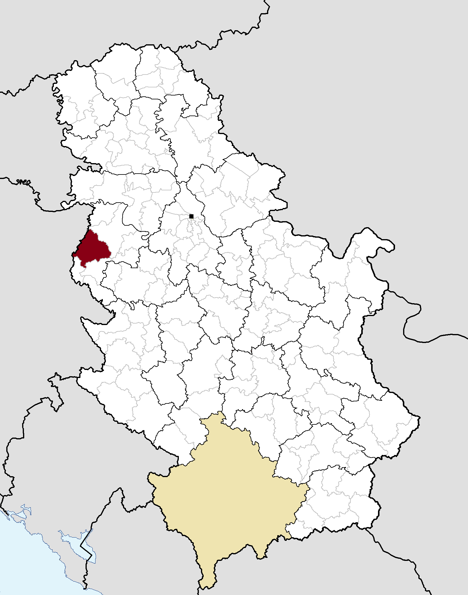 Municipal location in Serbia